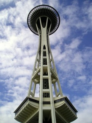 This tower is in the centre of Seattle city. We walked around this area.